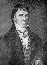 Carl Reinhold Sahlberg (1779-1860), Finnish biologist